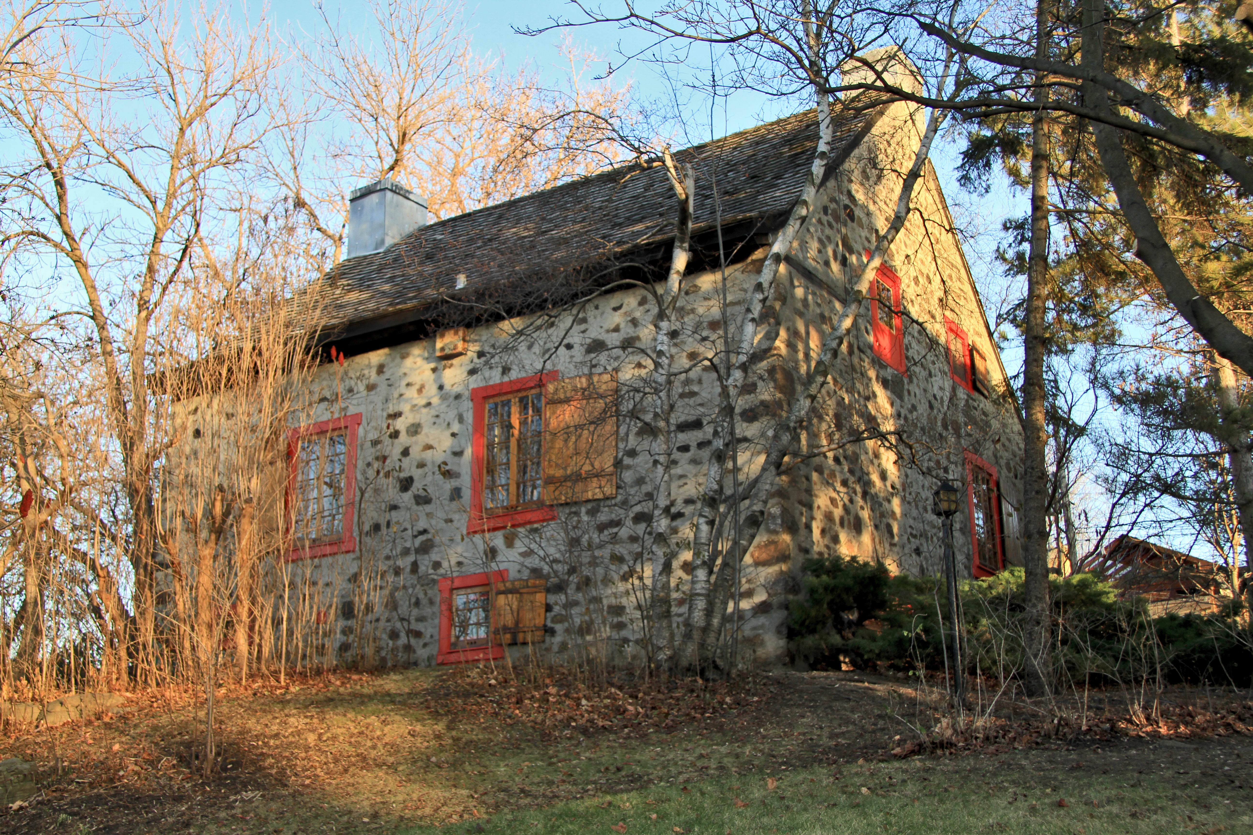 Photo : Denis Tremblay